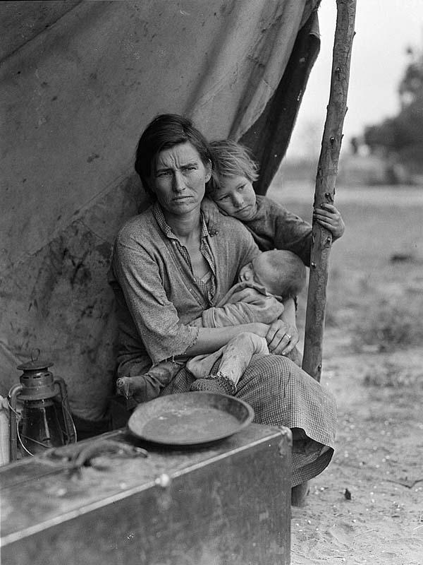 Photography of Florence Owens Thompson, known as "Migrant Mother", Pea-Pickers Camp, Nipomo, California (1936)